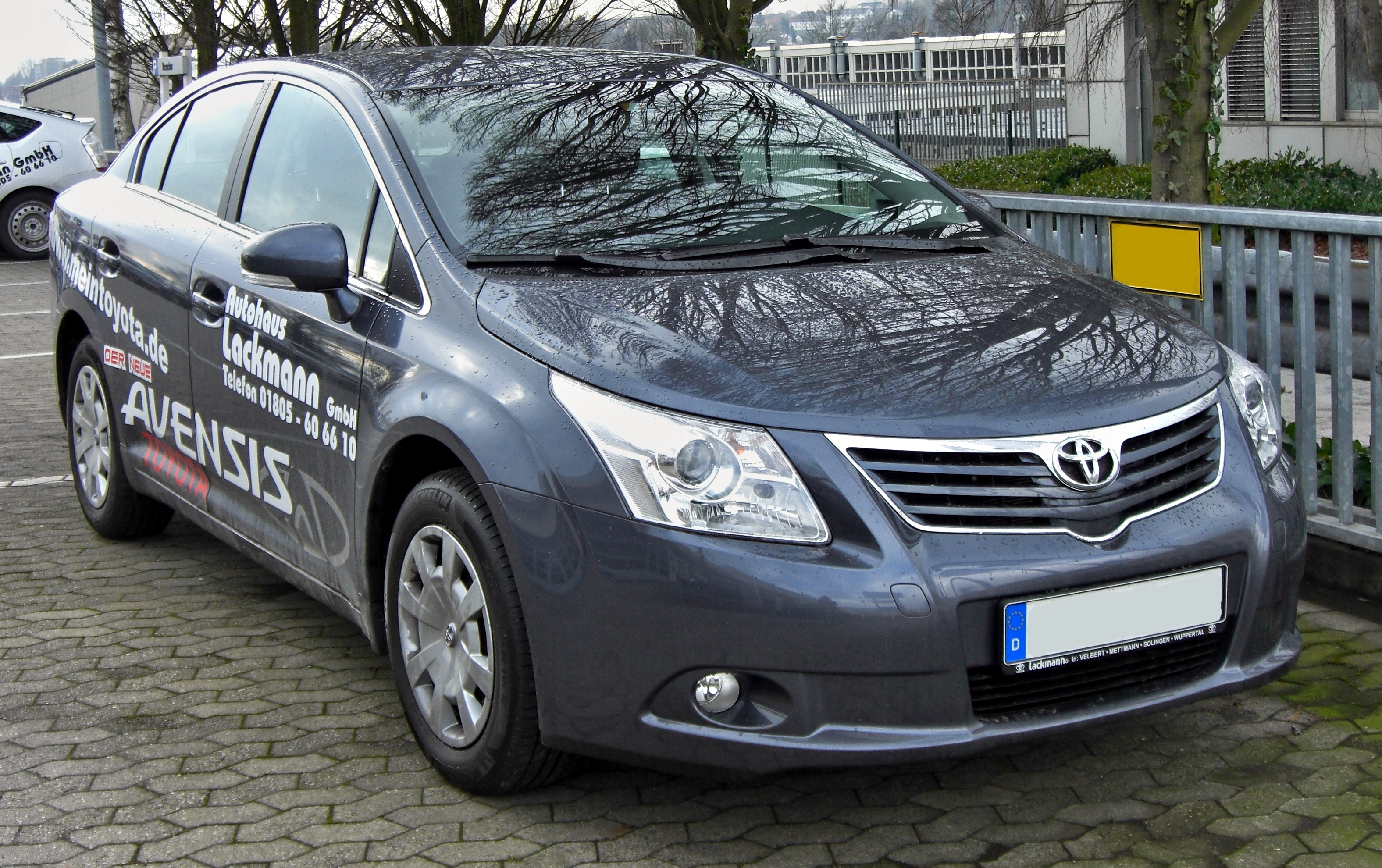 Toyota Avensis III